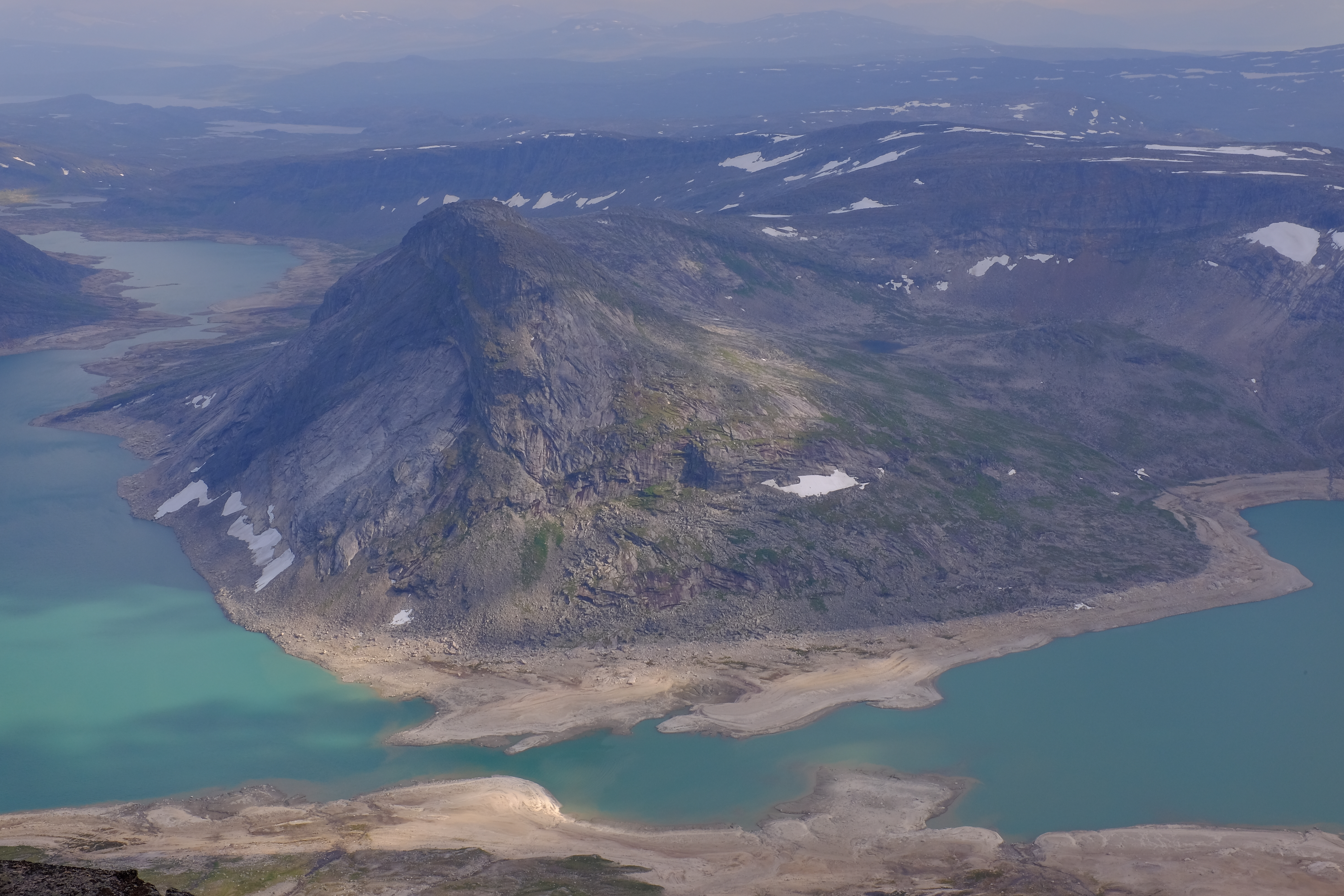 View from the Reinoksfjellet against Boartetjåhkkå and Rinoksvatnet